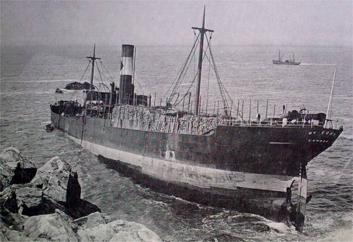 The William Cory & Son collier SS William Cory aground at Pendeen, Cornwall in 1910.